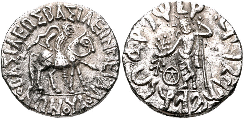 Vonones with Spalagadames